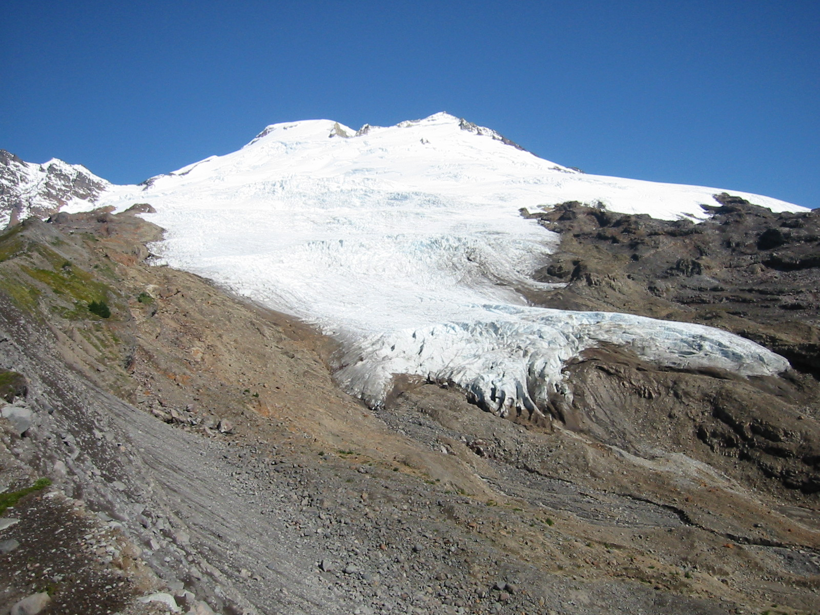 Easton Glacier with Sherman (left) and Grant (right) Peaks of Mount Baker behind